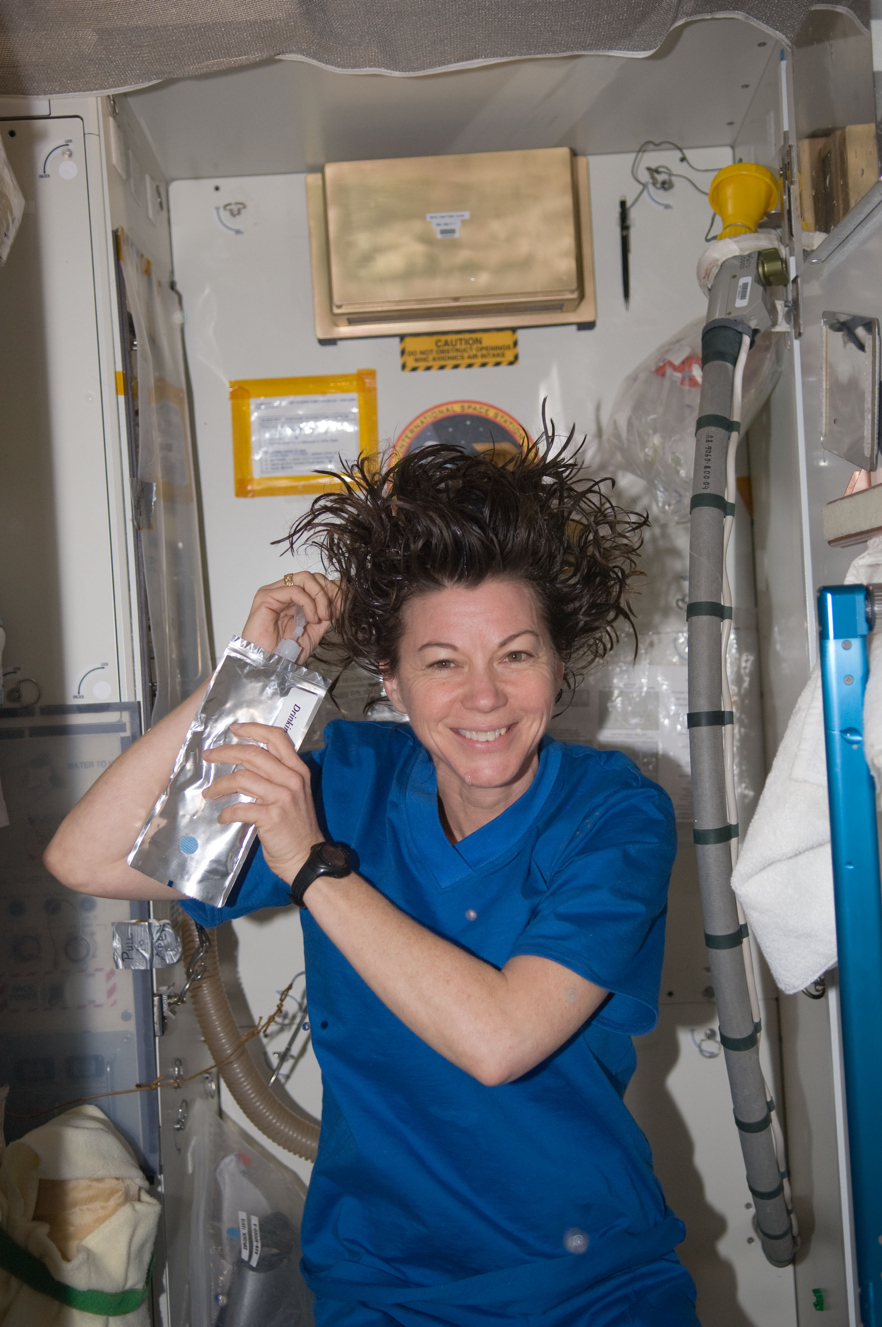 NASA astronaut Catherine (Cady) Coleman, Expedition 26 flight engineer, washes her hair while aboard the International Space Station.